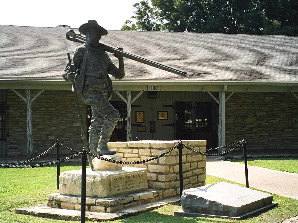 Entry to the Texas Ranger Hall of Fame and Museum in Waco, Texas, United States.